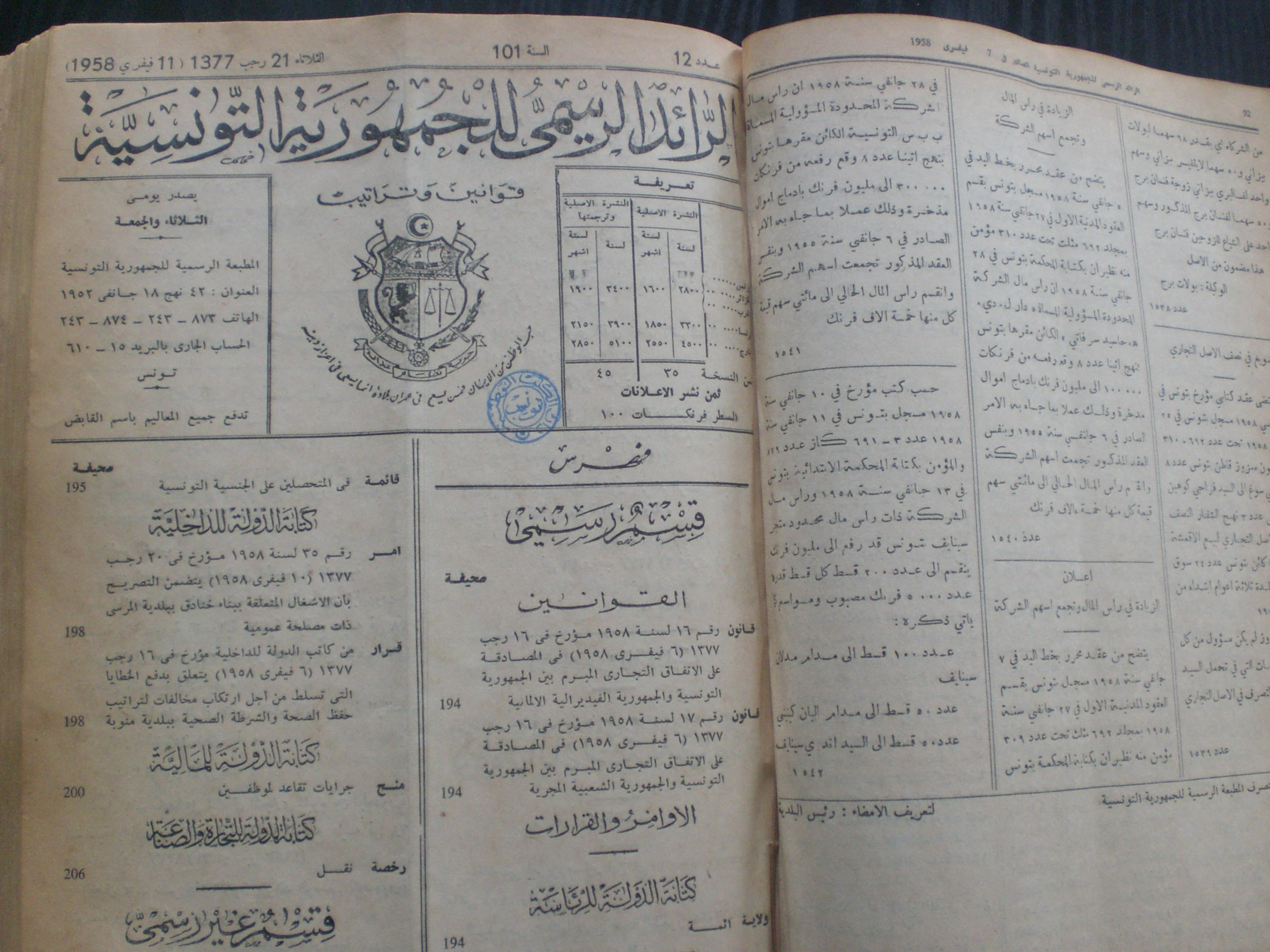 The Arabic version of the Journal Official Tunisien